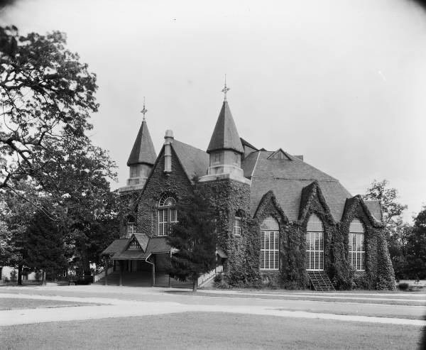 The first Memorial Hall building, University of North Carolina (at Chapel Hill), Chapel Hill, North Carolina. Demolished 1929.